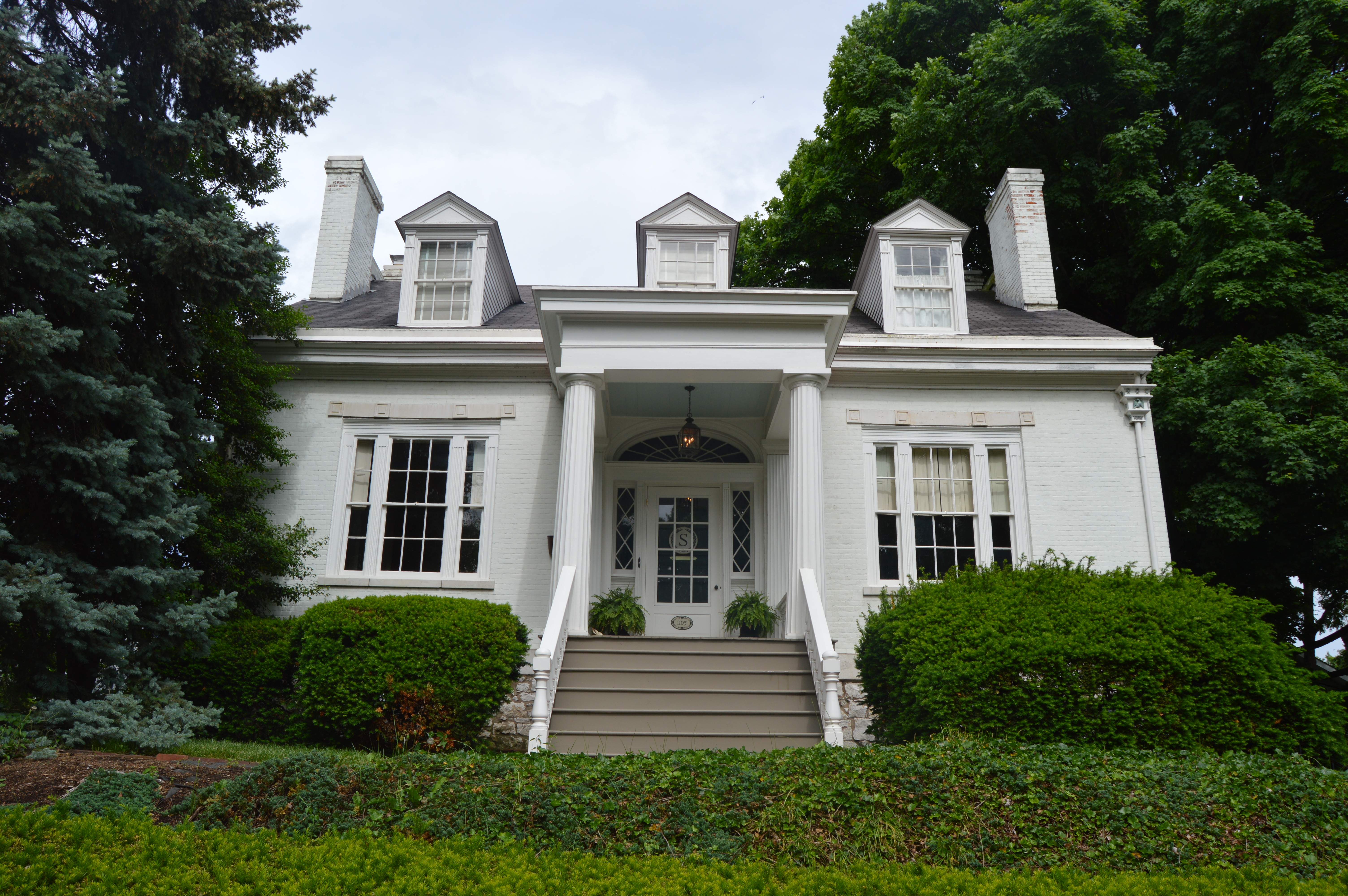 Front of the Lyman Trumbull House, located at 1105 Henry Street in Alton, Illinois, United States. Built in 1849, it has been declared a National Historic Landmark, and it is part of a historic district, the Middletown Historic District, that is listed on the National Register of Historic Places.